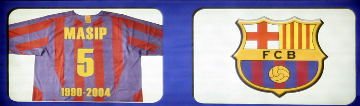 The shirt of Enric Masip, spanish handball player, in the Hall of Fame in Palau Blaugrana (Barcelona)